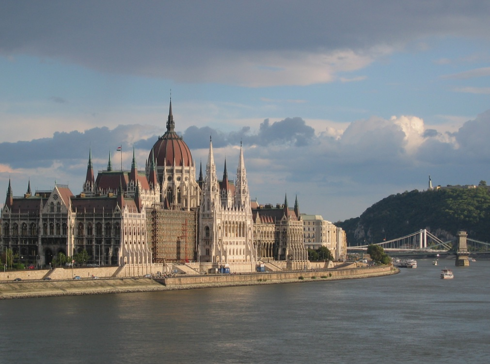 Parliament of Budapest as seen from the Margaret Bridge